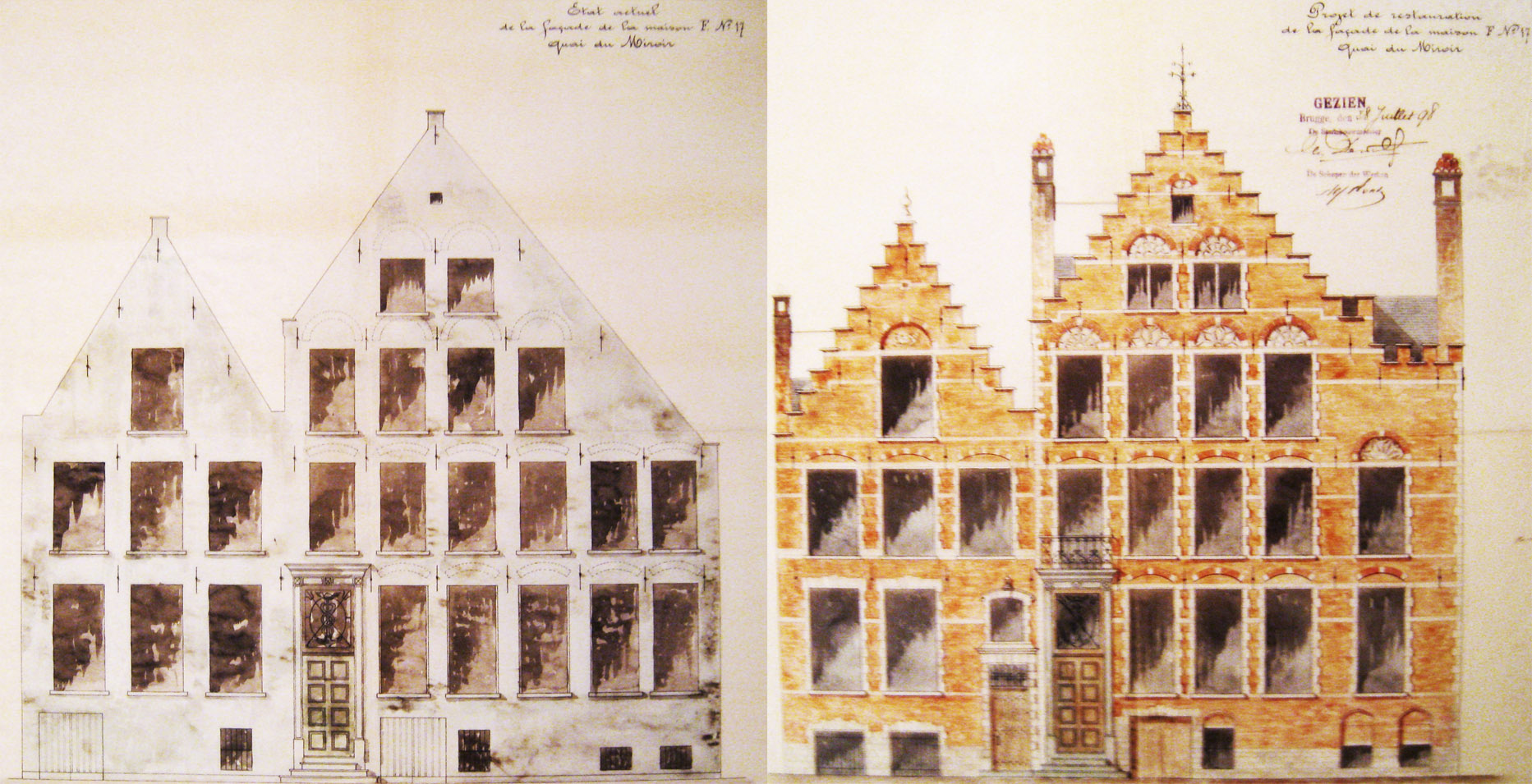 This picture was taken from the renovation permit of the house at Spiegelrei 17-18 in Bruges, Belgium. It shows the exterior of the house before and after renovation.